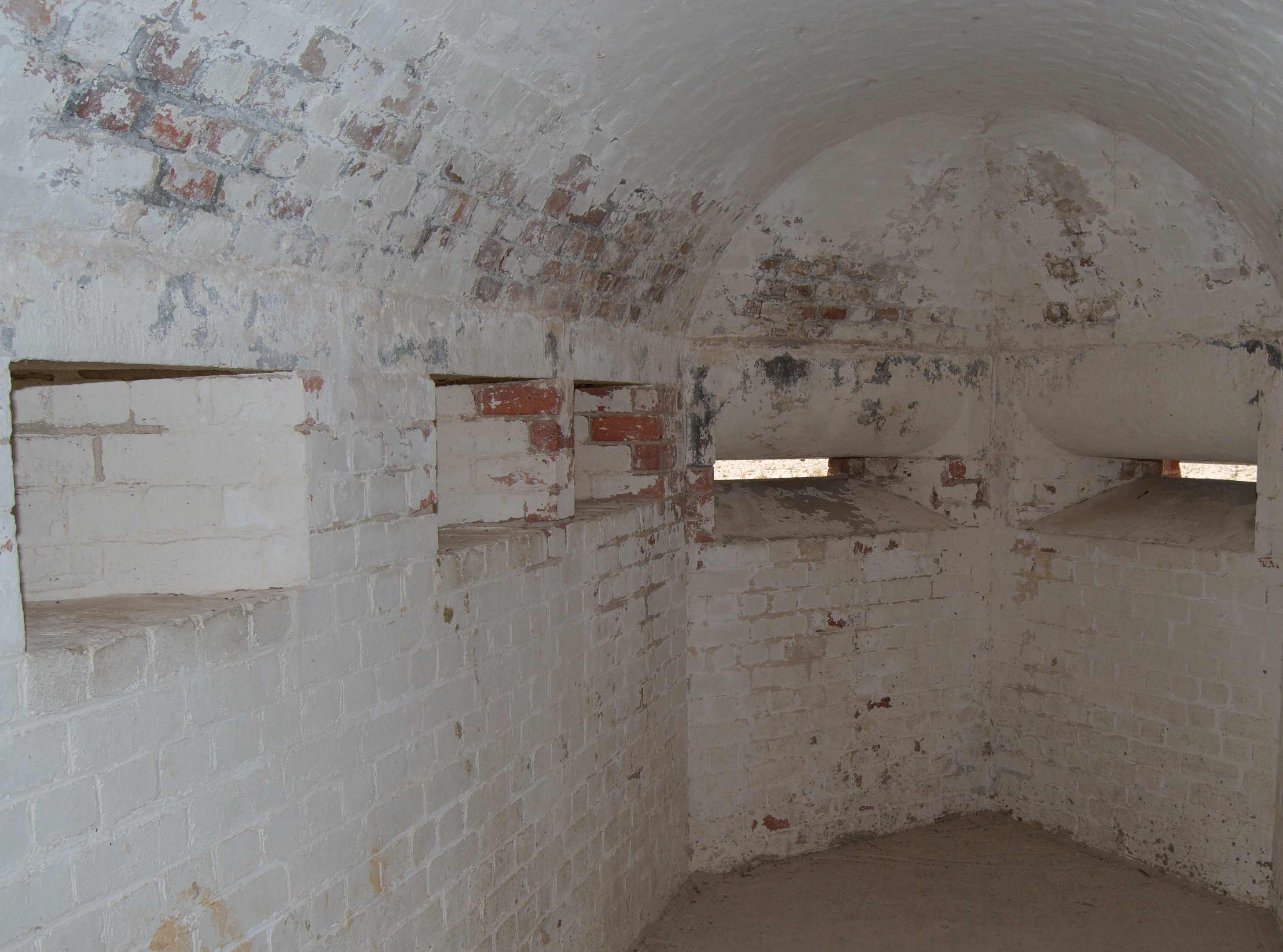 inside view of the Caponier with rifle firing ports visible, Fort Glanville, South Australia